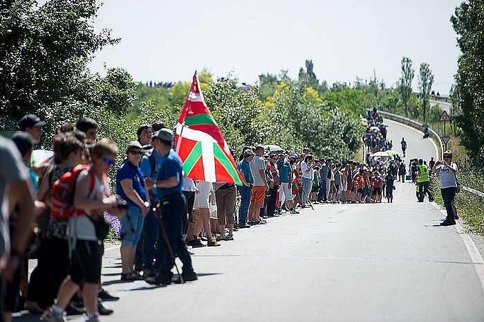 Human Chain For the Right to Decide of the Basque Country. 8th june 2014.